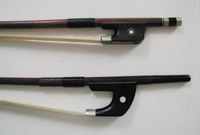 Photograph showing the differences between the French and German variety of double bass bows.